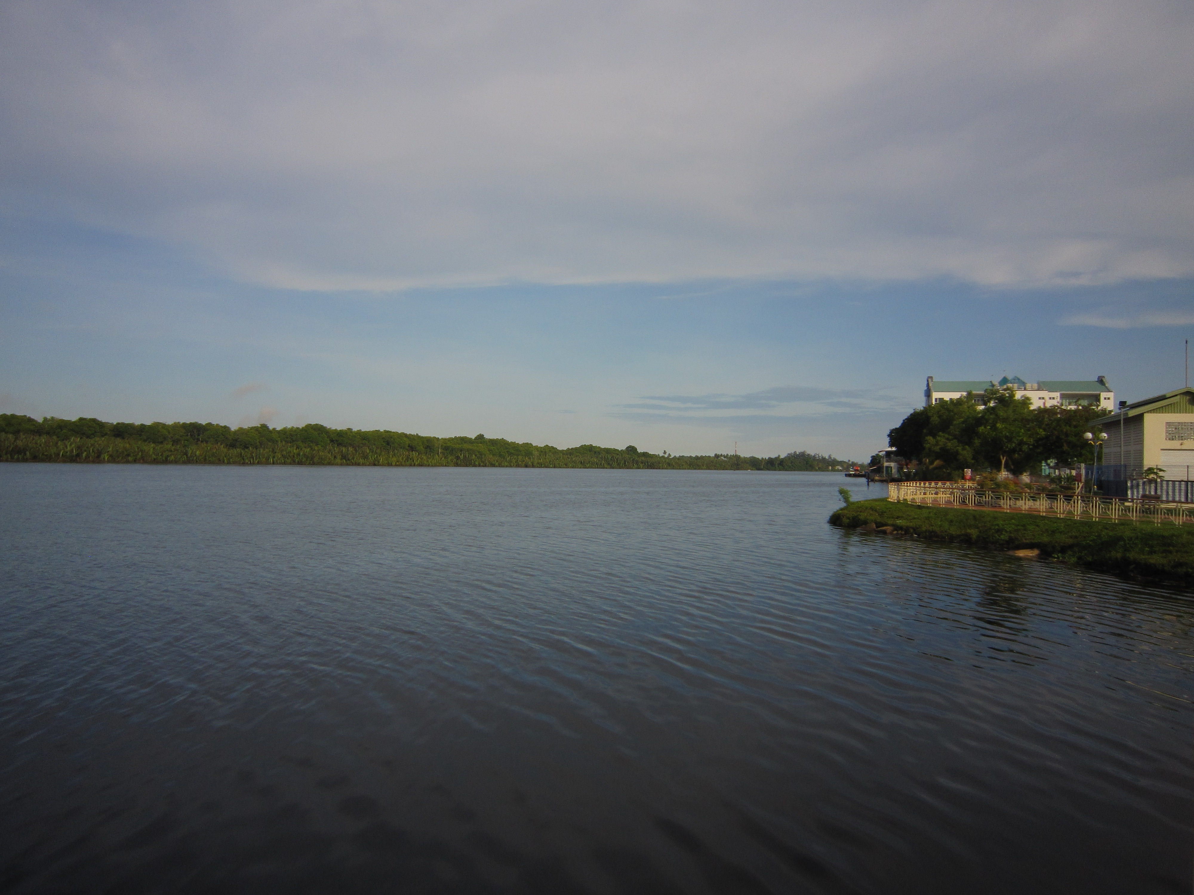 Belait River